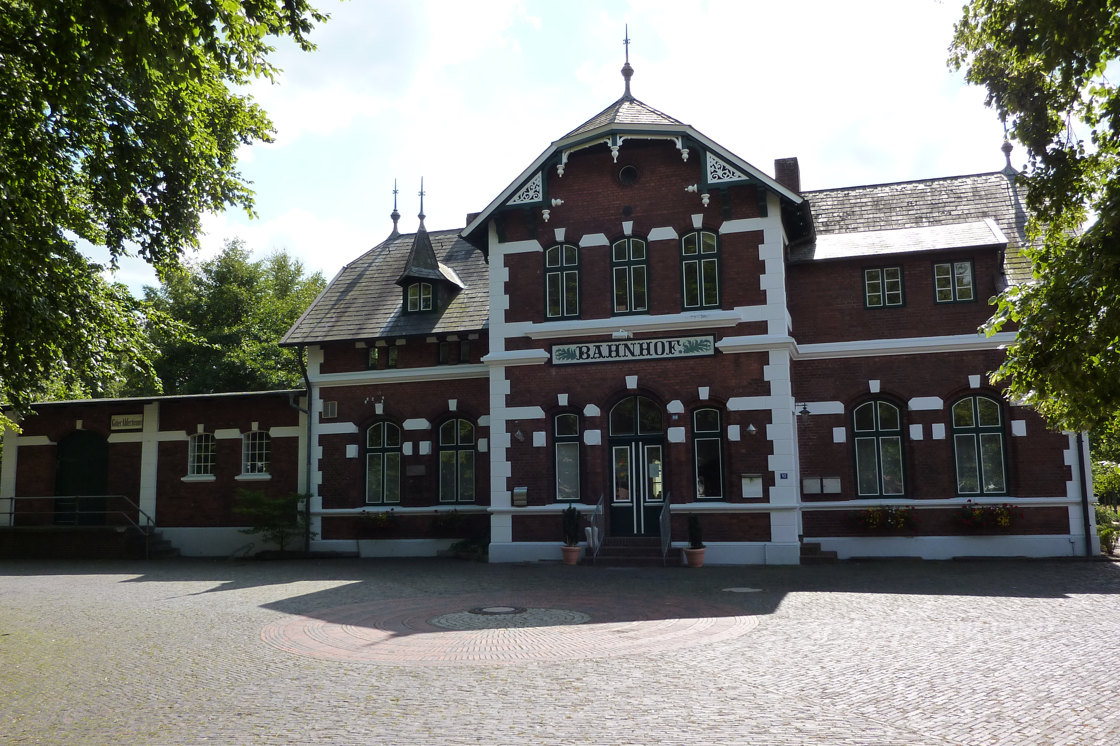 old train station